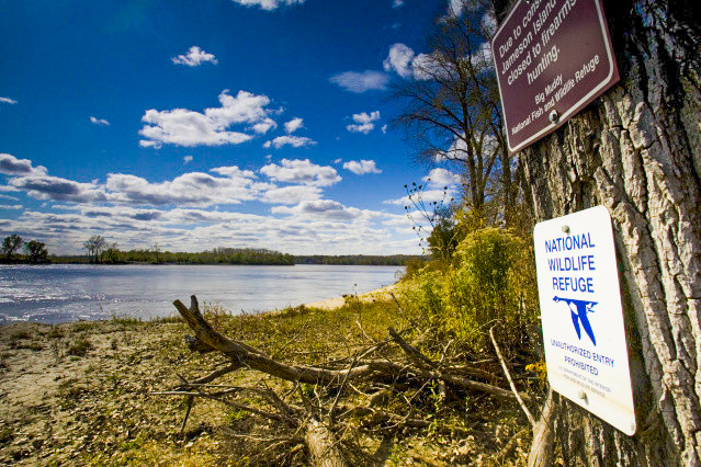 The Jameson Island unit of Big Muddy National Fish and Wildlife Refuge occupies a large bend of the Missouri River floodplain in Saline County. The unit consists of 1,871 acres of bottom land forests including cottonwood, willow, box elder and other floodplain species. USFWS.